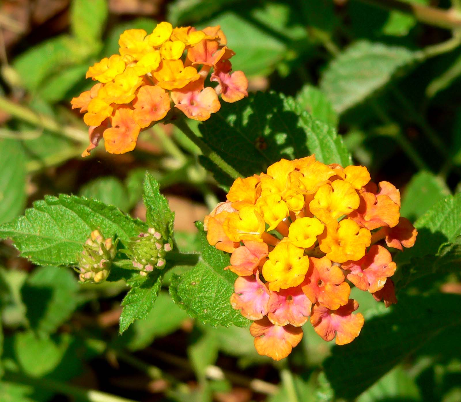 Photo of Lantana x 'Spreading Sunset' at the Springs Preserve garden in Las Vegas, Nevada